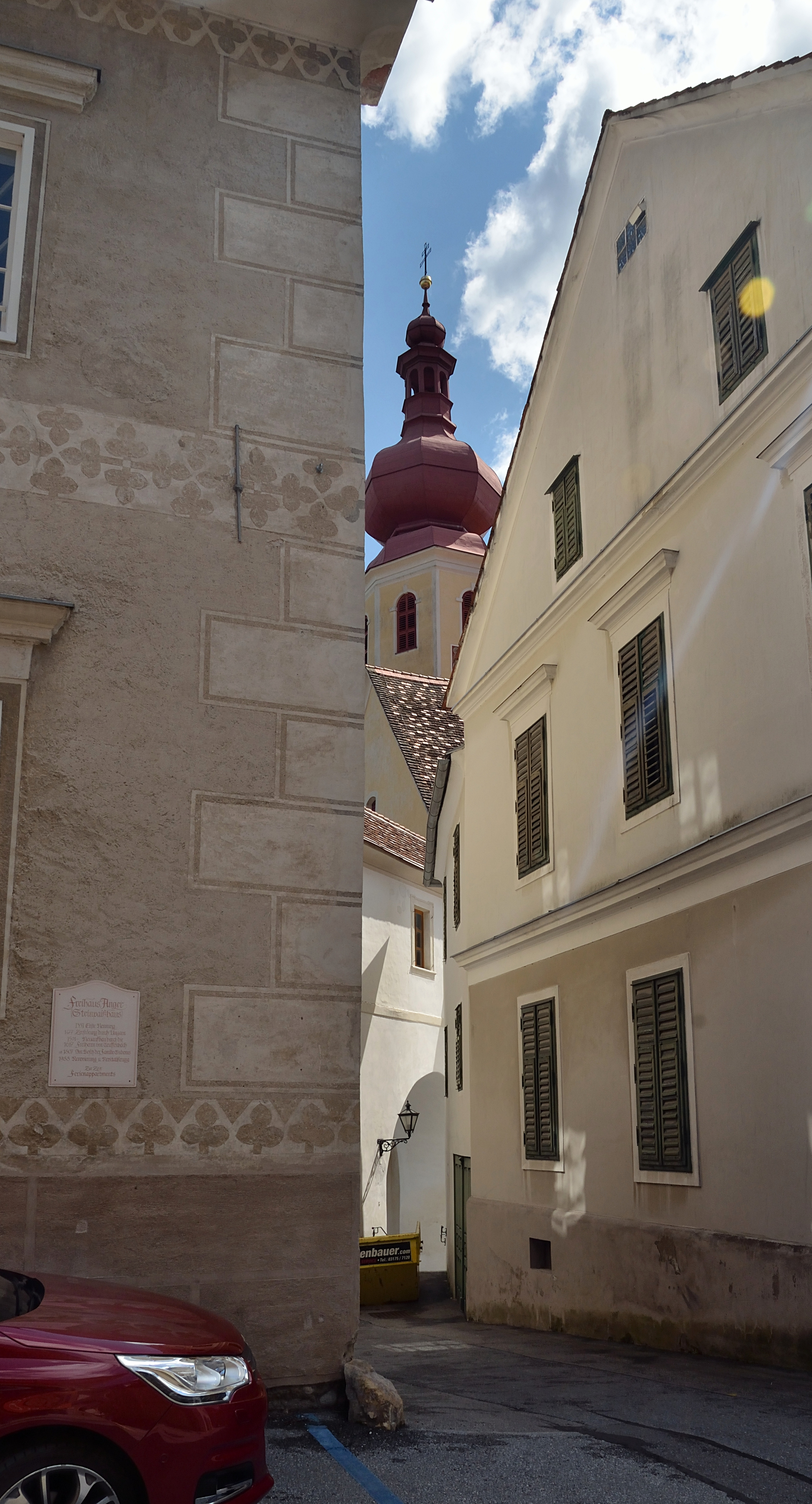 So called Stainpeißhaus at the main square and behind the parish church of Anger, Styria.